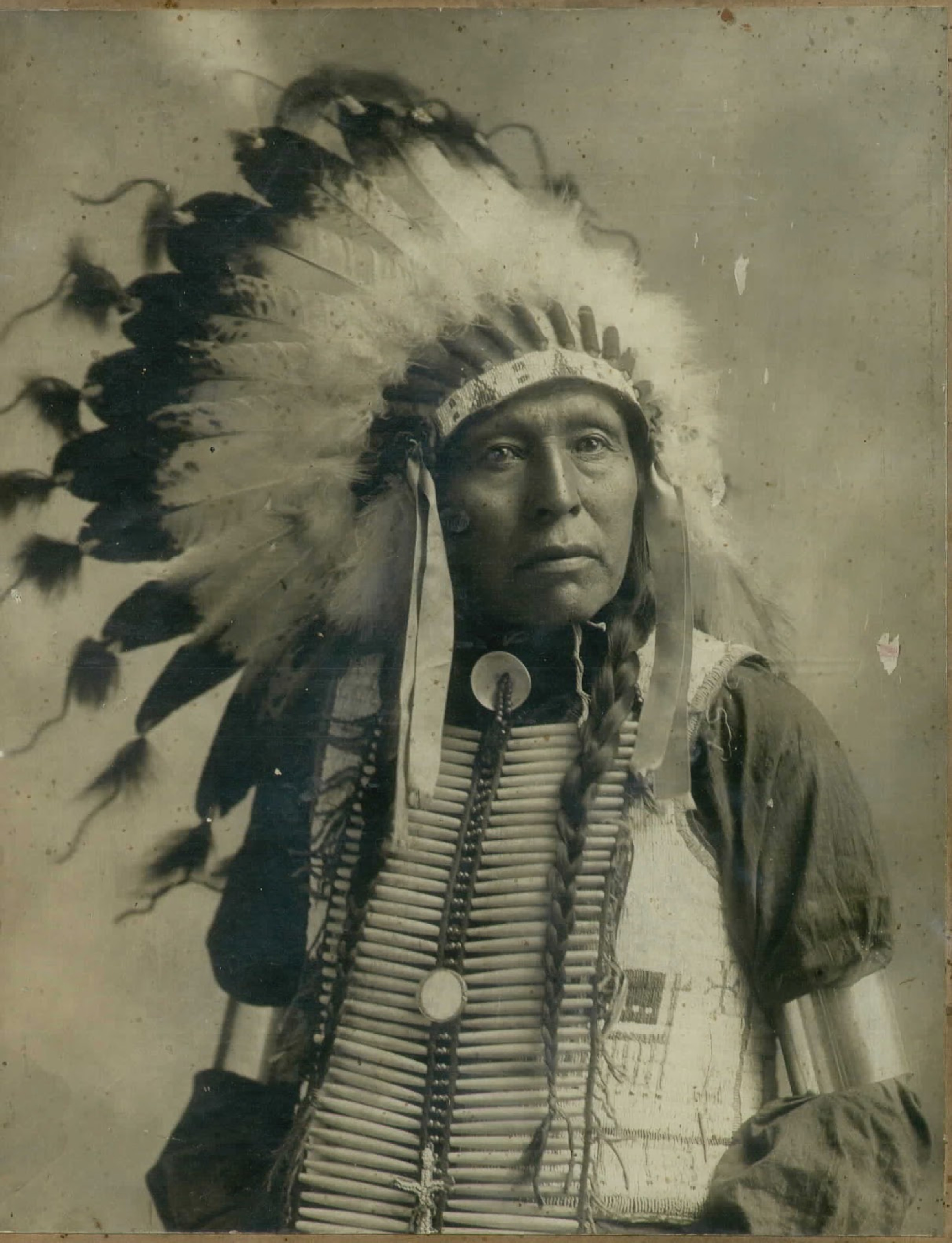 Chief Flying Hawk, Oglala Lakota (1854-1931) Other information